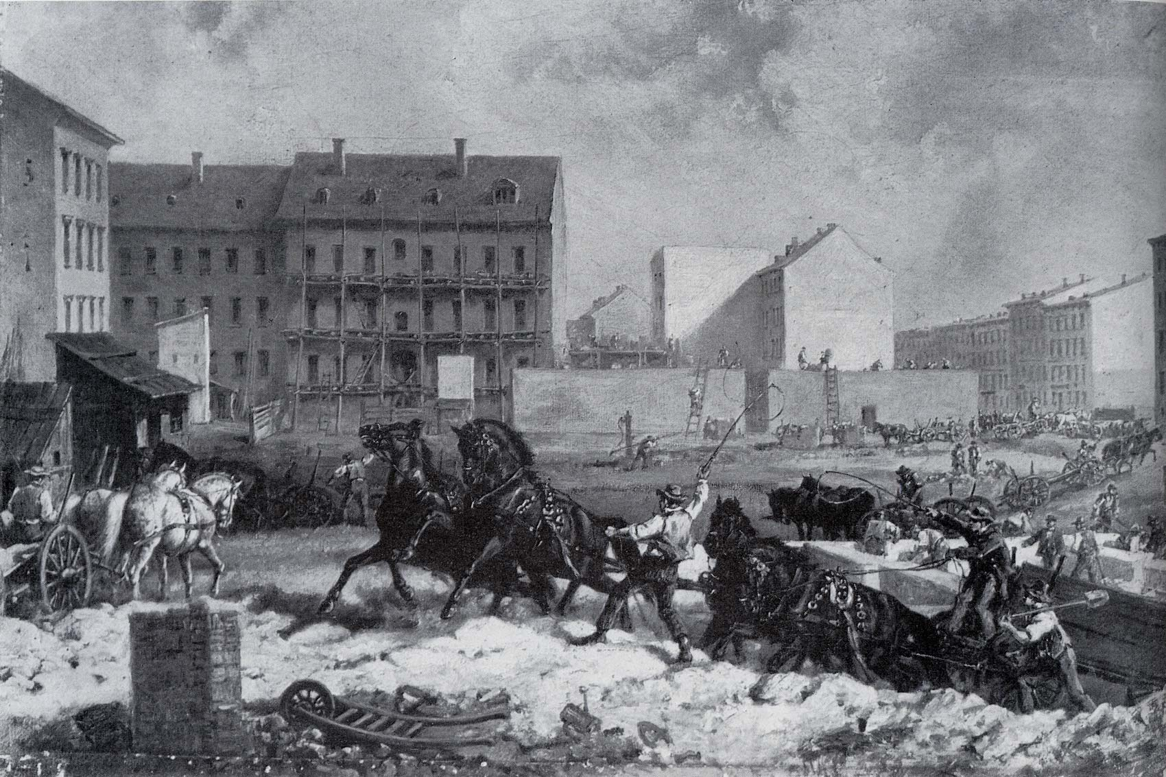 "Speed of period of promoterism" ("Tempo der Gründerzeit") by Friedrich Kaiser, oil on canvas, construction of Grenadierstreet (today Almstadtstreet)